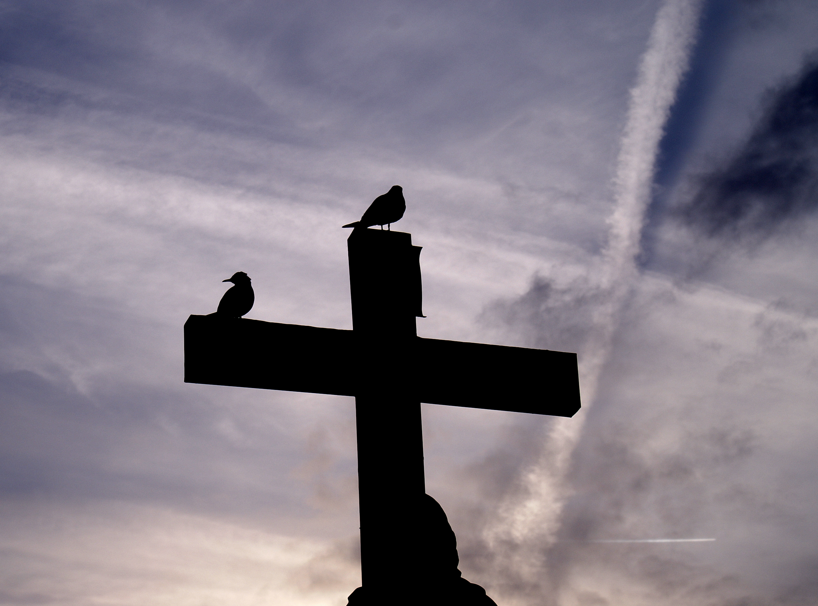 A cross